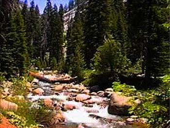 Typical boreal forest.